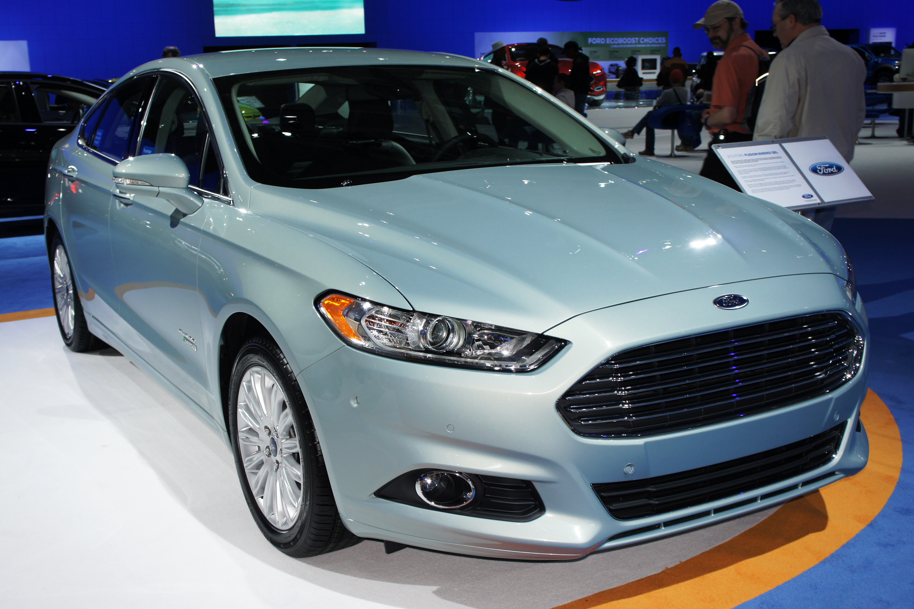 2013 Ford Fusion Energi SEL plug-in hybrid exhibited at the 2012 Washington Auto Show, District of Columbia.